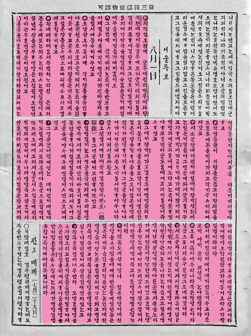 One of the articles published in the 'Kyunghyang' newspaper on August 09, 1907. This is an excerpt of the information related to the battle Namdaemun.